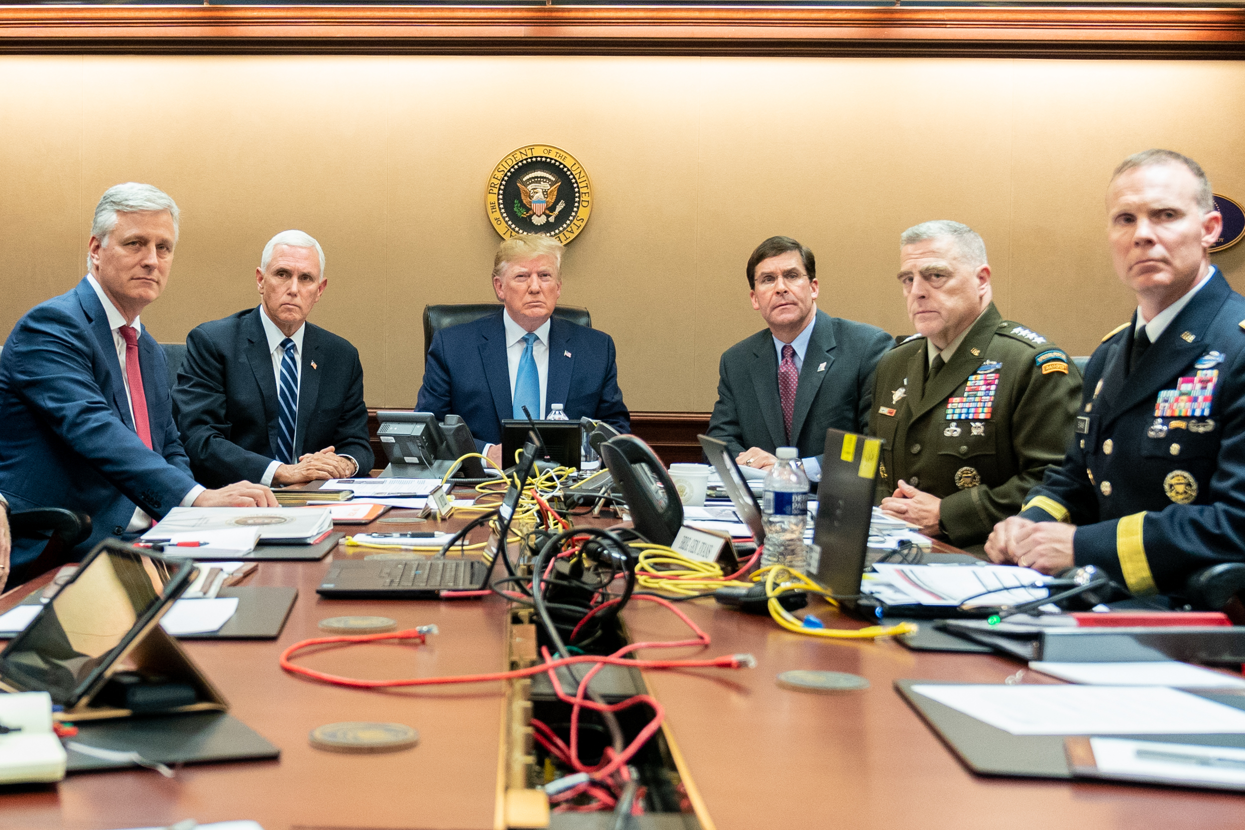 President Donald Trump is joined by Vice President Mike Pence, National Security Advisor Robert O’Brien, left; Secretary of Defense Mark Esper and Chairman of the Joint Chiefs of Staff U.S. Army General Mark A. Milley, and Brig. Gen. Marcus Evans, Deputy Director for Special Operations on the Joint Staff, at right, Saturday, Oct. 26, 2019, in the Situation Room of the White House monitoring developments as U.S. Special Operations forces close in on notorious ISIS leader Abu Bakr al-Baghdadi’s compound in Syria with a mission to kill or capture the terrorist. (Official White House Photo by Shealah Craighead)